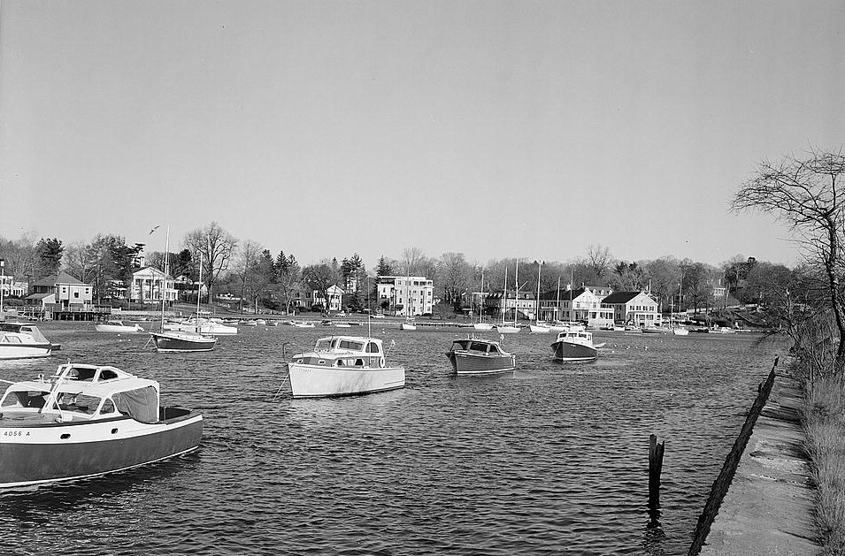 Southport Harbor, Mill River, Southport Harbor, Southport (Fairfield County, Connecticut) cropped This file comes from the Historic American Buildings Survey (HABS), Historic American Engineering Record (HAER) or Historic American Landscapes Survey (HALS). These are programs of the National Park Service established for the purpose of documenting historic places. Records consist of measured drawings, archival photographs, and written reports. When reusing please credit: Library of Congress, Prints & Photographs Division, CONN,1-SOUPO,33-3 This tag does not indicate the copyright status of the attached work. A normal copyright tag is still required. See Commons:Licensing. This work is in the public domain in the United States because it is a work prepared by an officer or employee of the United States Government as part of that person’s official duties under the terms of Title 17, Chapter 1, Section 105 of the US Code. Note: This only applies to original works of the Federal Government and not to the work of any individual U.S. state, territory, commonwealth, county, municipality, or any other subdivision. This template also does not apply to postage stamp designs published by the United States Postal Service since 1978. (See § 313.6(C)(1) of Compendium of U.S. Copyright Office Practices). It also does not apply to certain US coins; see The US Mint Terms of Use. This file has been identified as being free of known restrictions under copyright law, including all related and neighboring rights.